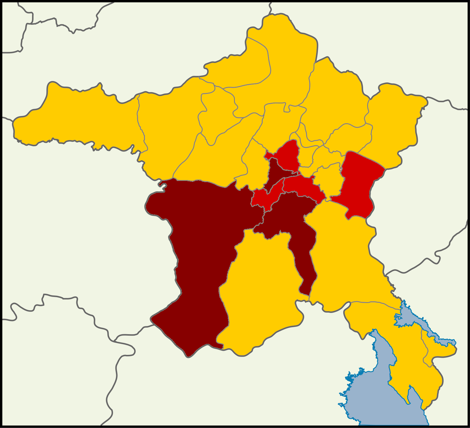 Local election results in Ankara by district, 2019